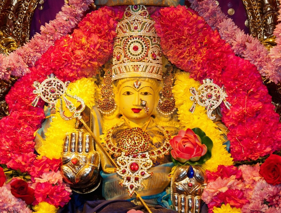 Photograph taken at the Parashakthi Temple in Pontiac, Michigan